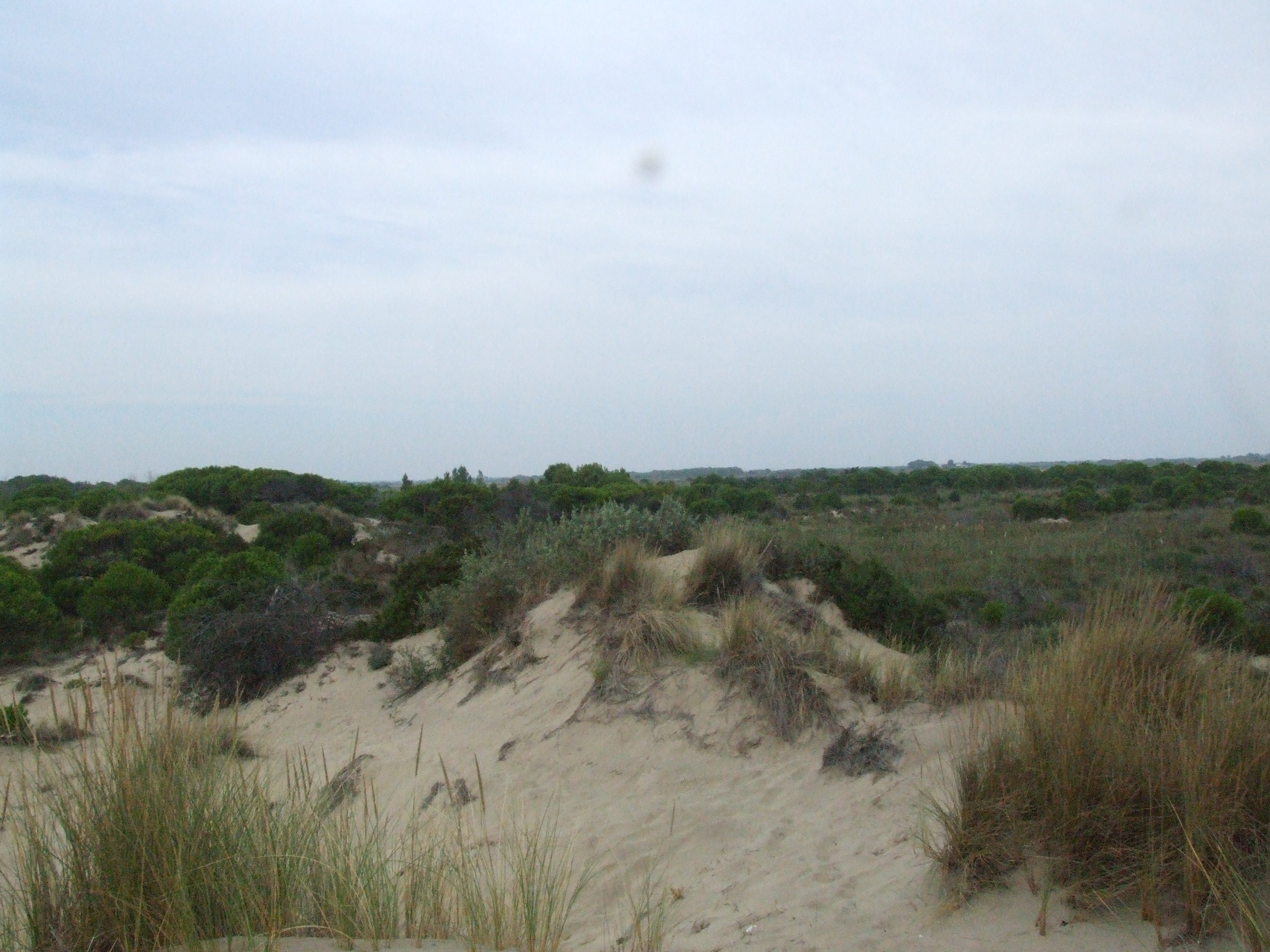 L'Espiguetteis a popular beach in the commune of Le Grau-du-Roi. The site contains an area of protected dunes that open onto the Mediterranean beach. A small length of that beach is managed by the Helio Club of Nîmes. Coords +-30m. Second row of dunes showing progression of vegetation